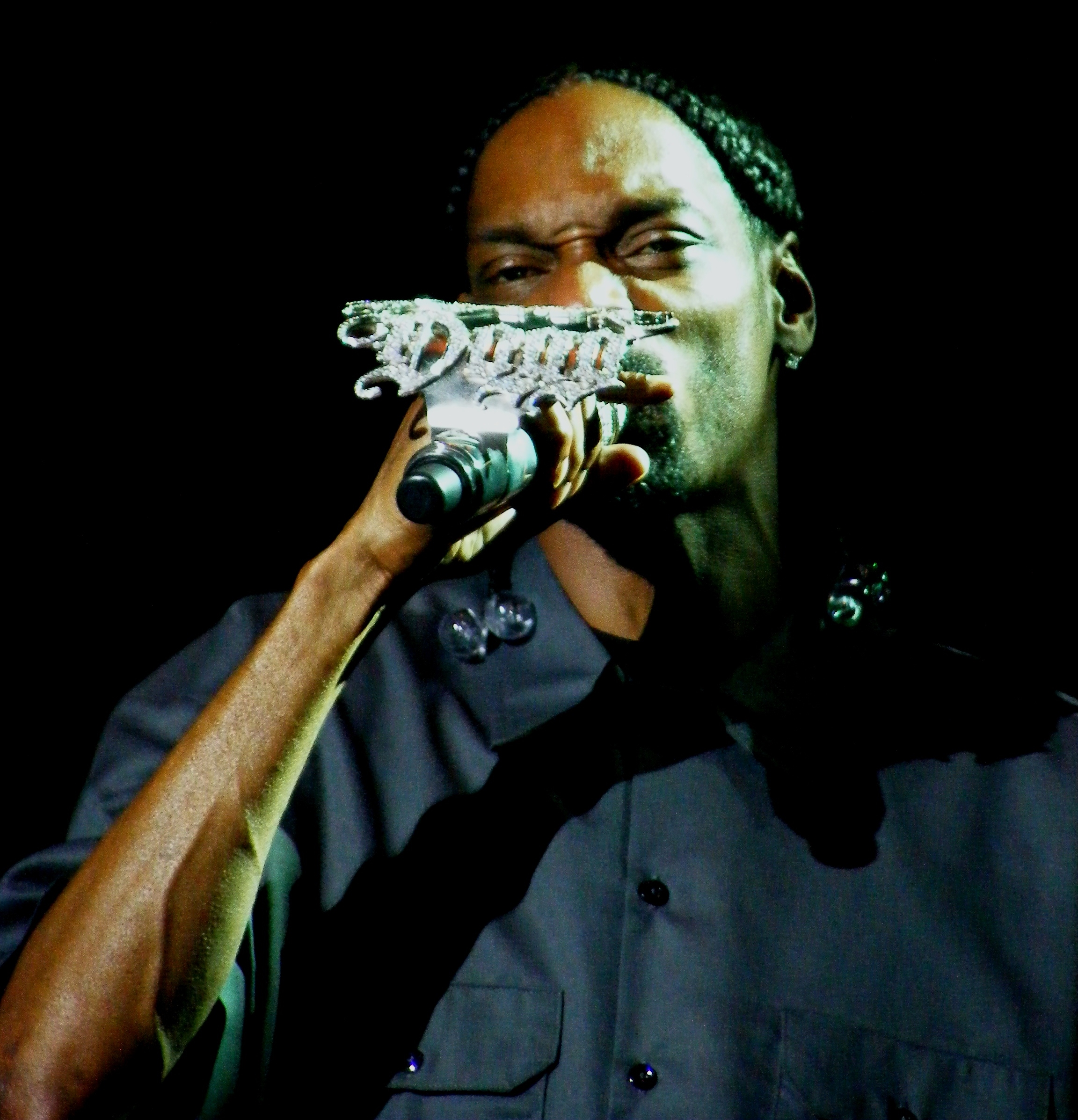 Snoop Dogg performing at the Manchester Apollo.